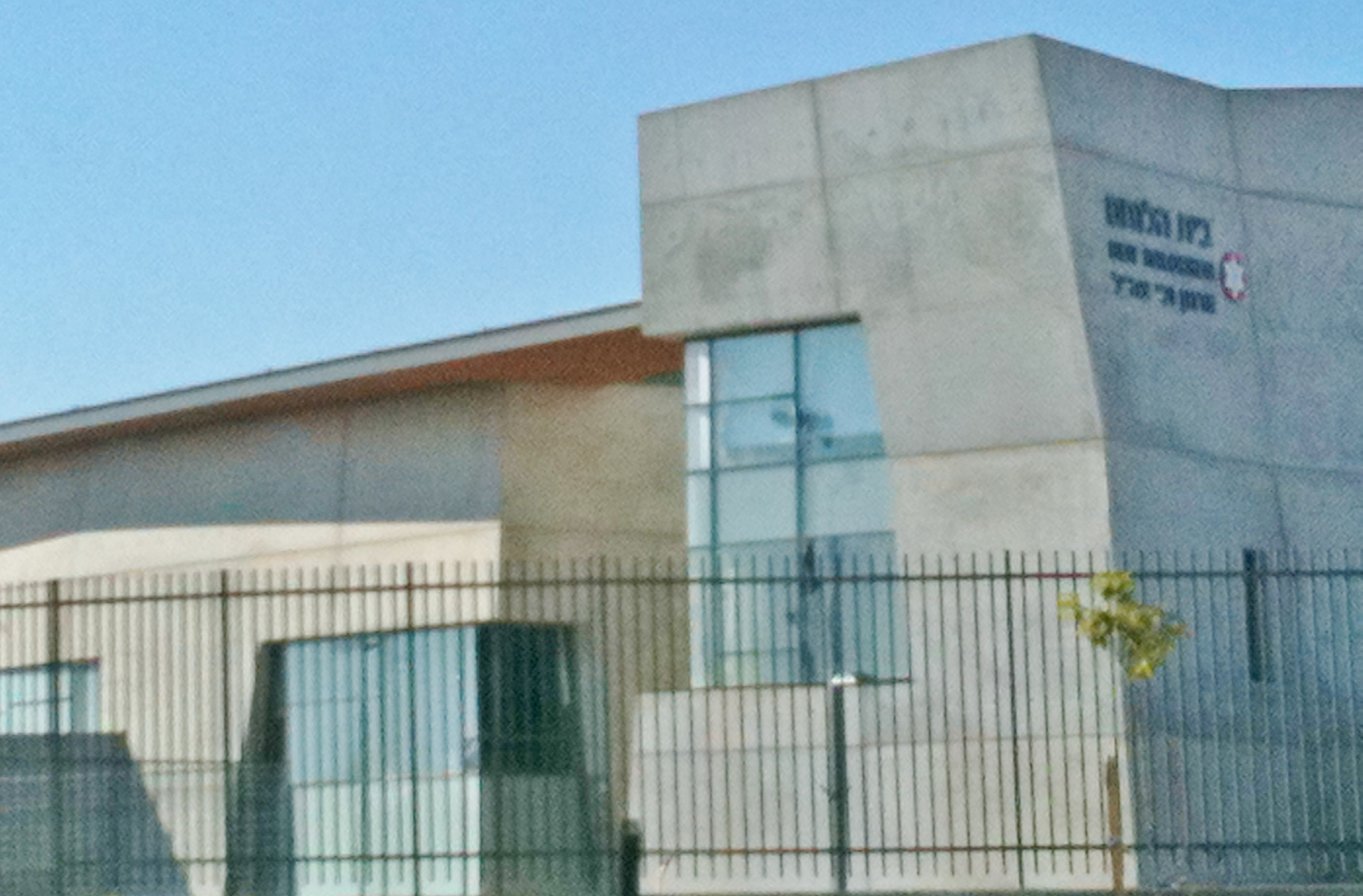 Beit Halochem, Beersheva, Israel